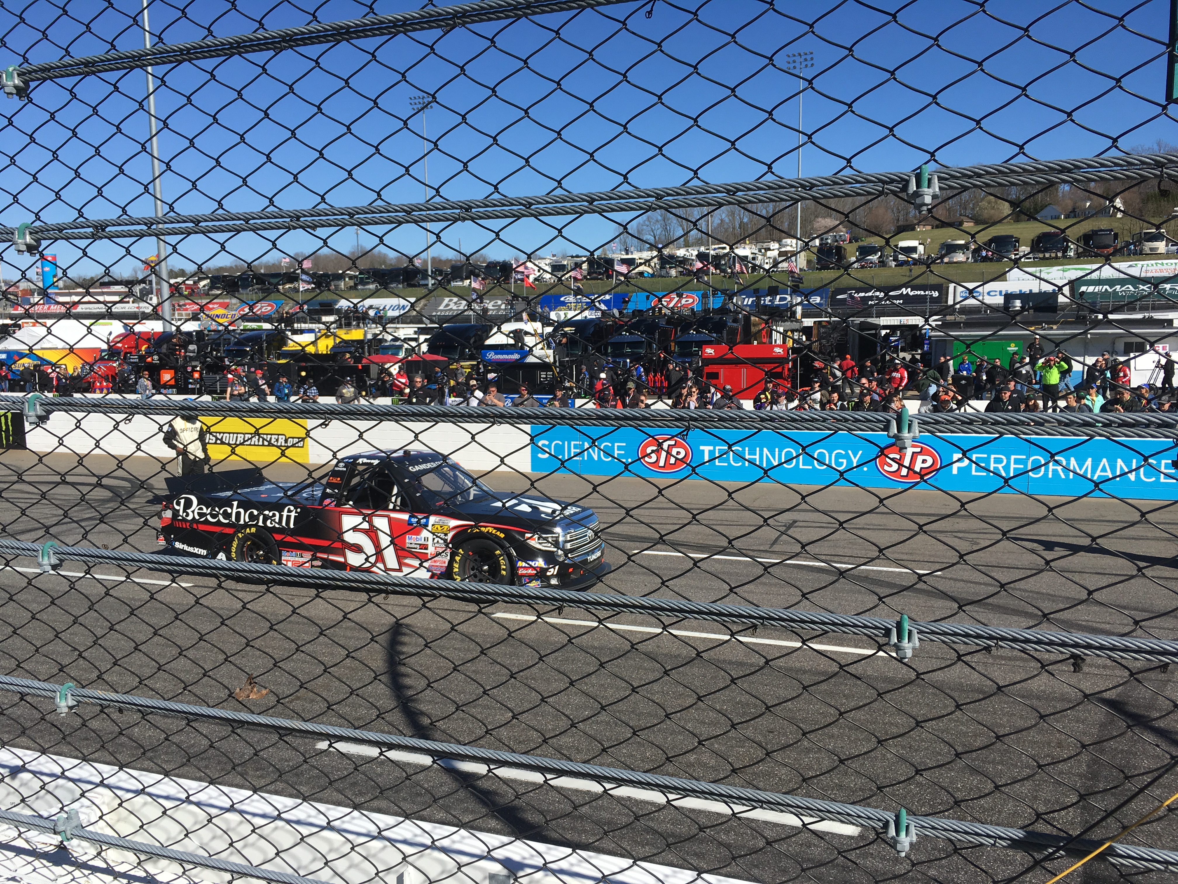 Kyle Busch (#51) drives by on the frontstretch after winning the 2019 TruNorth Global 250 at Martinsville Speedway.